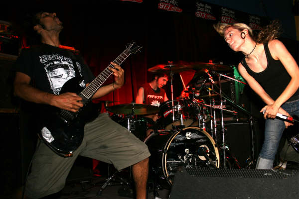 A photo of Fuck the Facts ca. 2007 performing live. It is taken from the band's website where it is used under their media section, and is available there for free download. E-mail forwarded to OTRS.